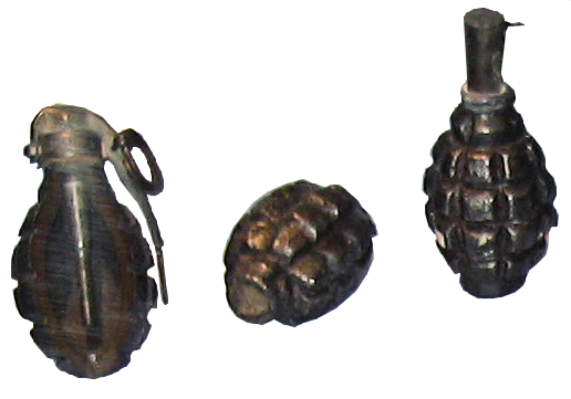 Defensive fragmentation grenade 16 type WWI (in coll. Mémorial de Verdun).